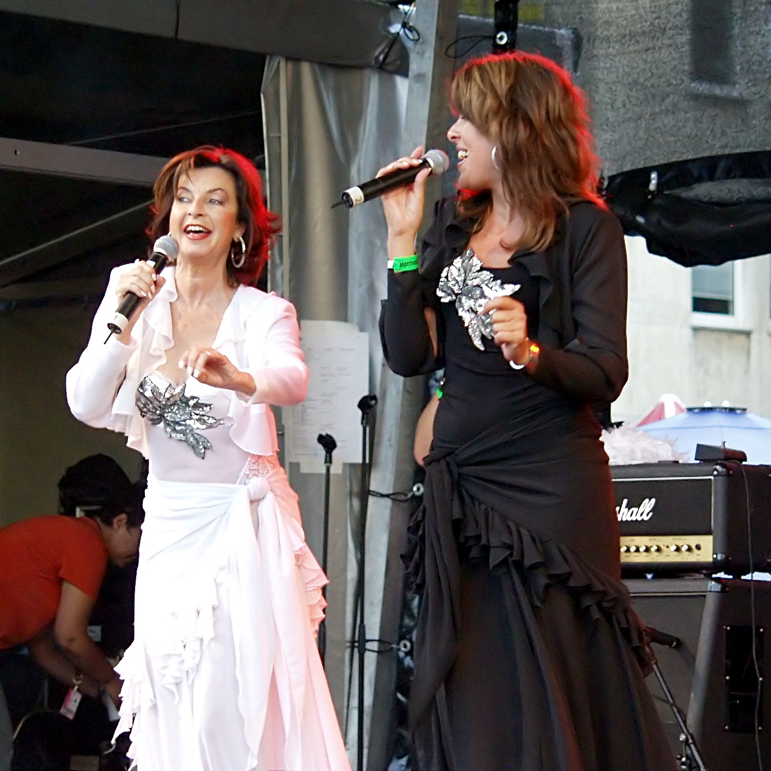 Baccara (Mayte Mateos and Paloma Blanco) in Cologne, Germany during ColognePride 2006.